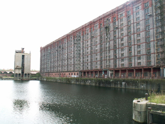 Stanley Dock Tobacco Warehouse, Liverpool